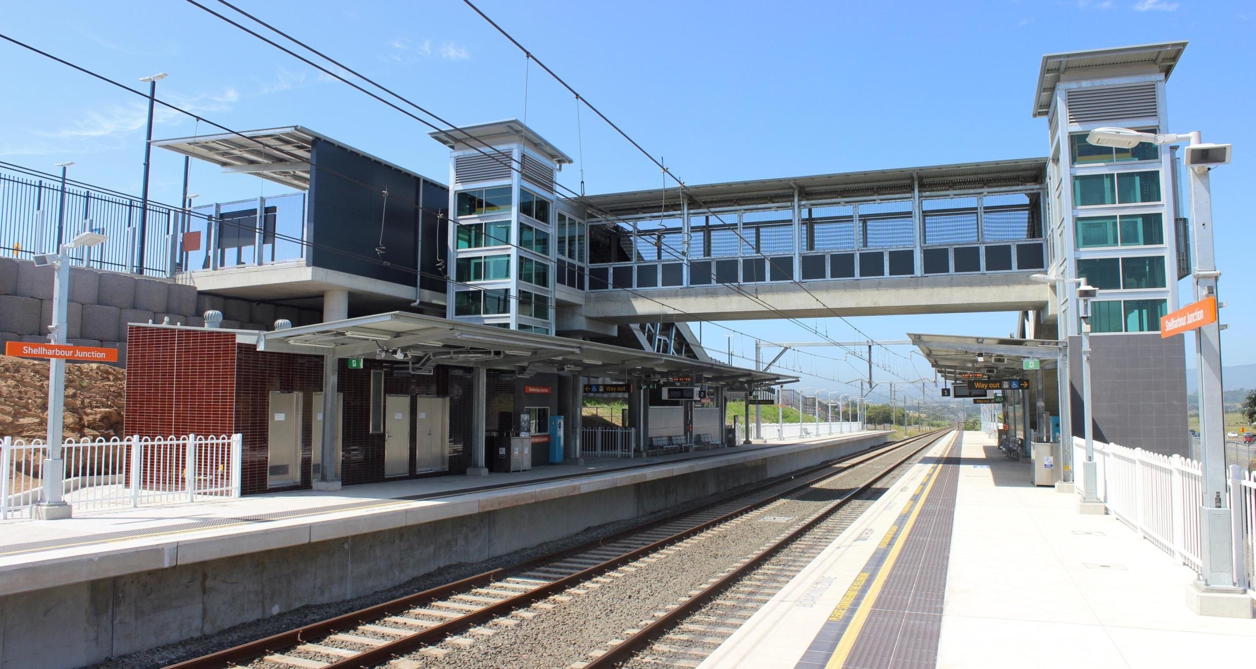 Shellharbour Junction railway station platforms and concourse